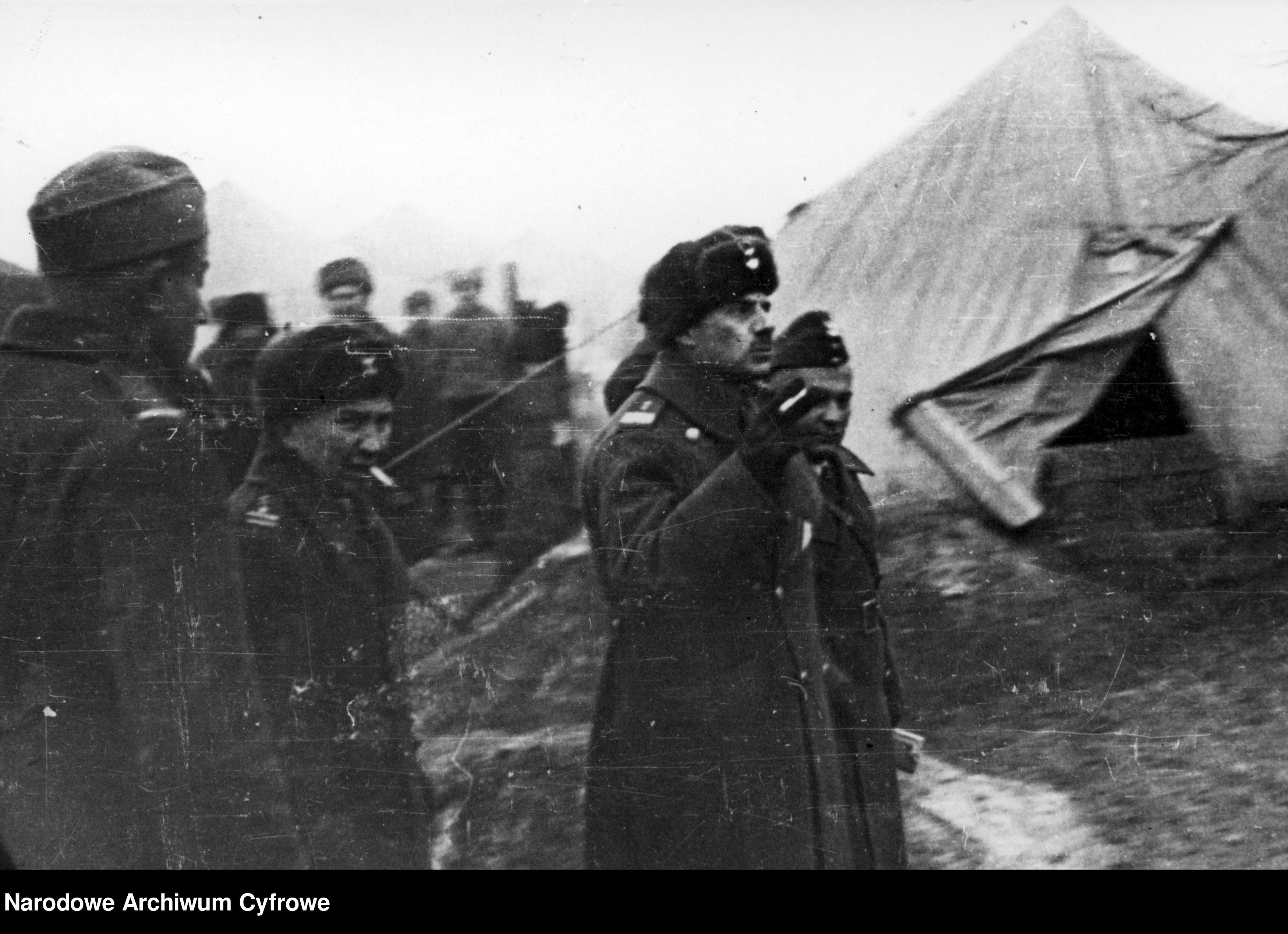 Gen. Władysław Anders inspects the branches of the Polish Army in the USSR. From left: NN, colonel Dipl. Lepold Okulicki, General Władysław Anders. 1941 - 1942.